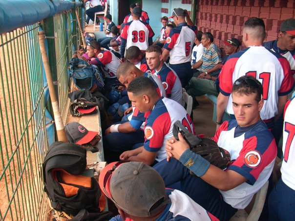 Dogout of Camagüey baseball team at Candido Gonzalez Stadium.